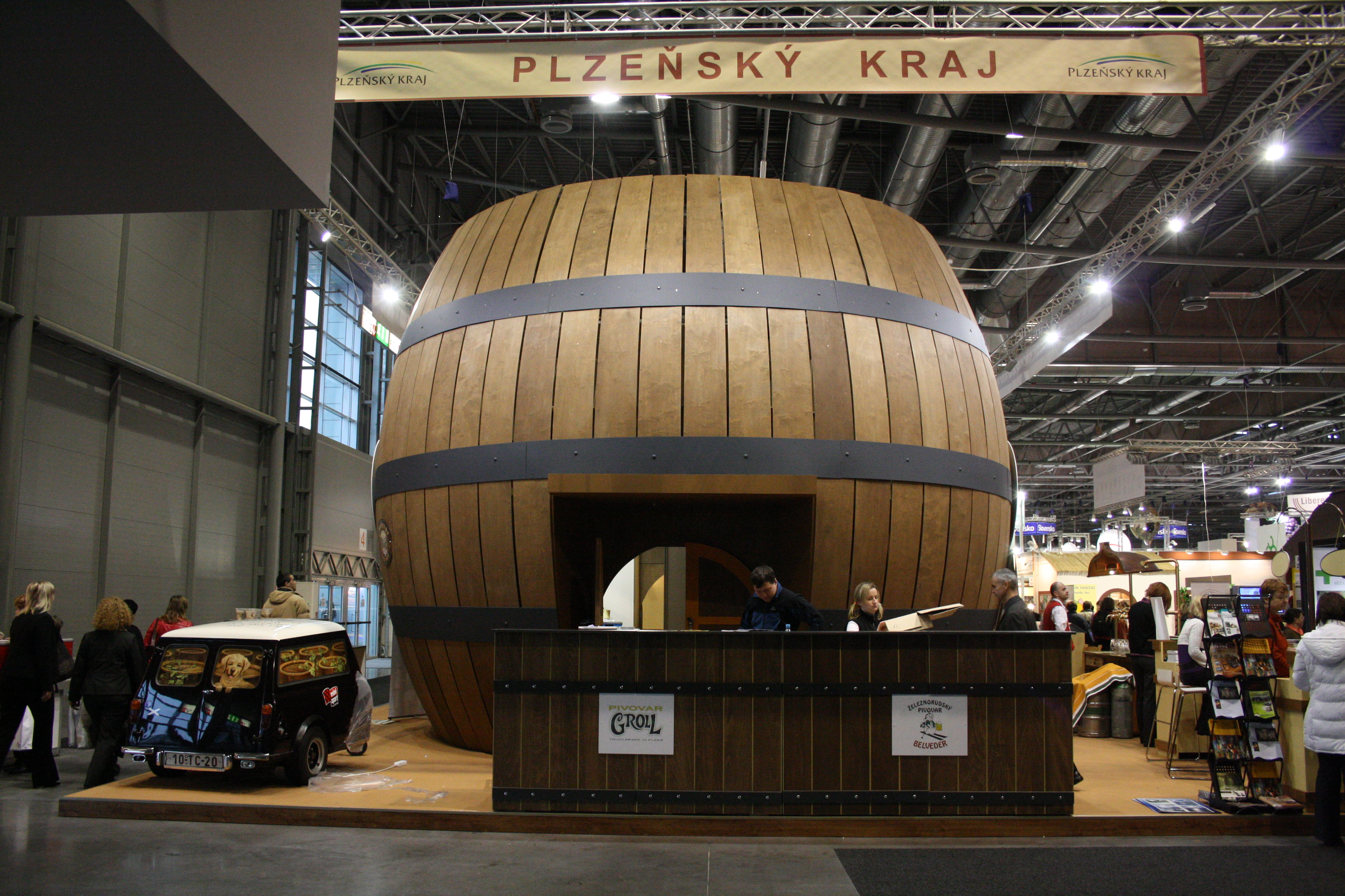 Presentation of various touristic destinations of Czech Republic.